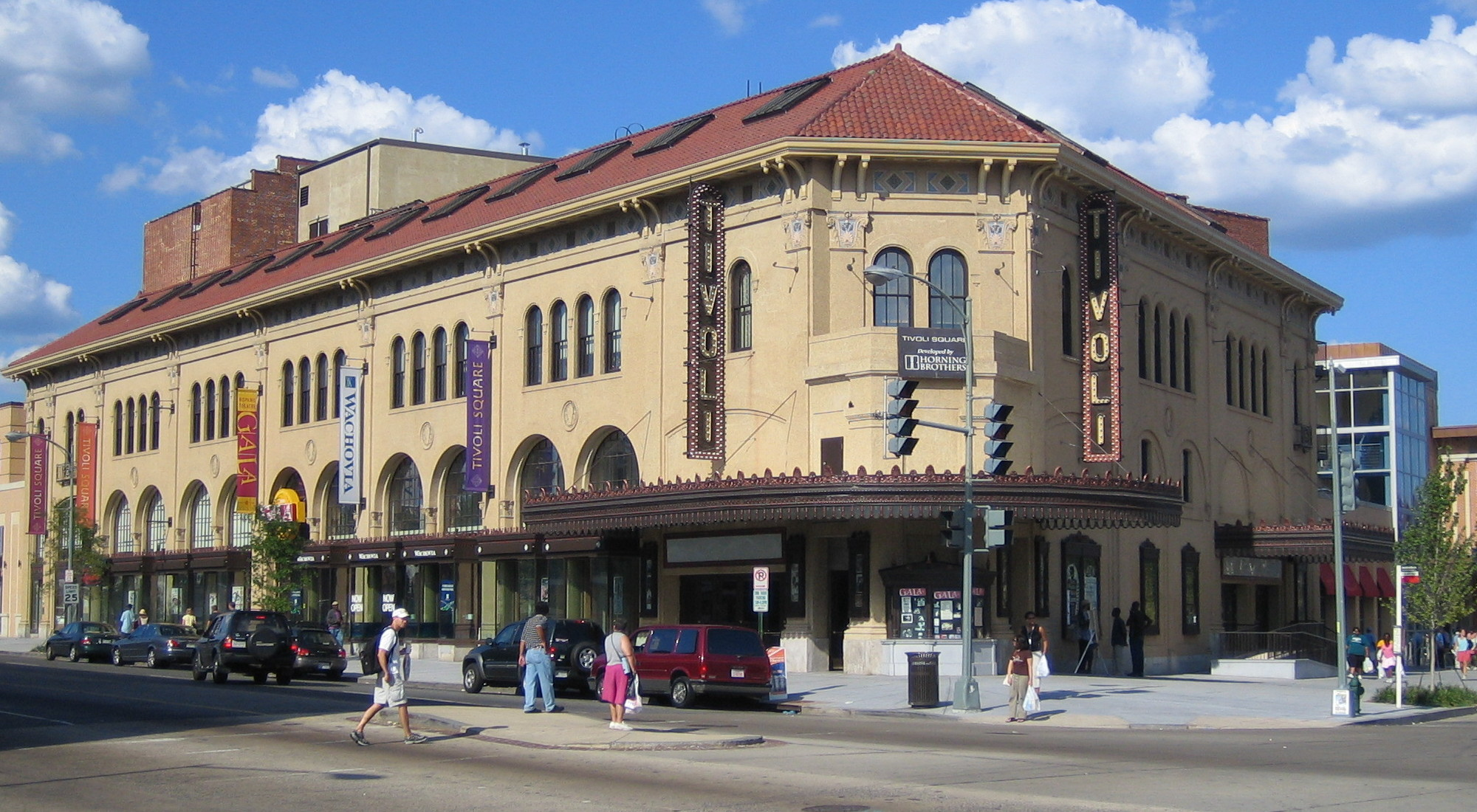 Tivoli Theater in Washington, D.C. 9/5/05 Image taken with Canon PowerShot SD300